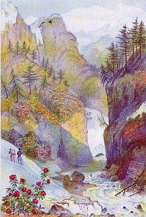 Kinchinjinga from the Thlonok River, with Rhododendrons in flower